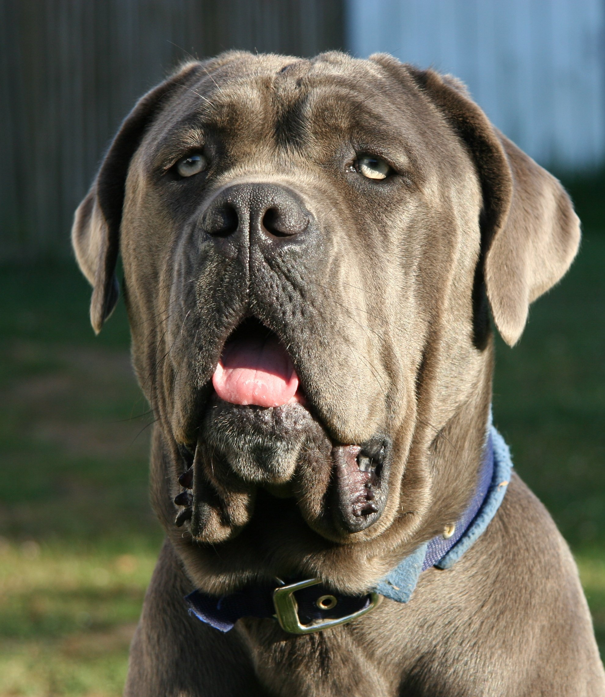 Female Neapolitan Mastiff. Now weighing about 40% more than in the photos 2 months ago! She's looking far more healthy, which is good to see. 7 months old. Lucy.